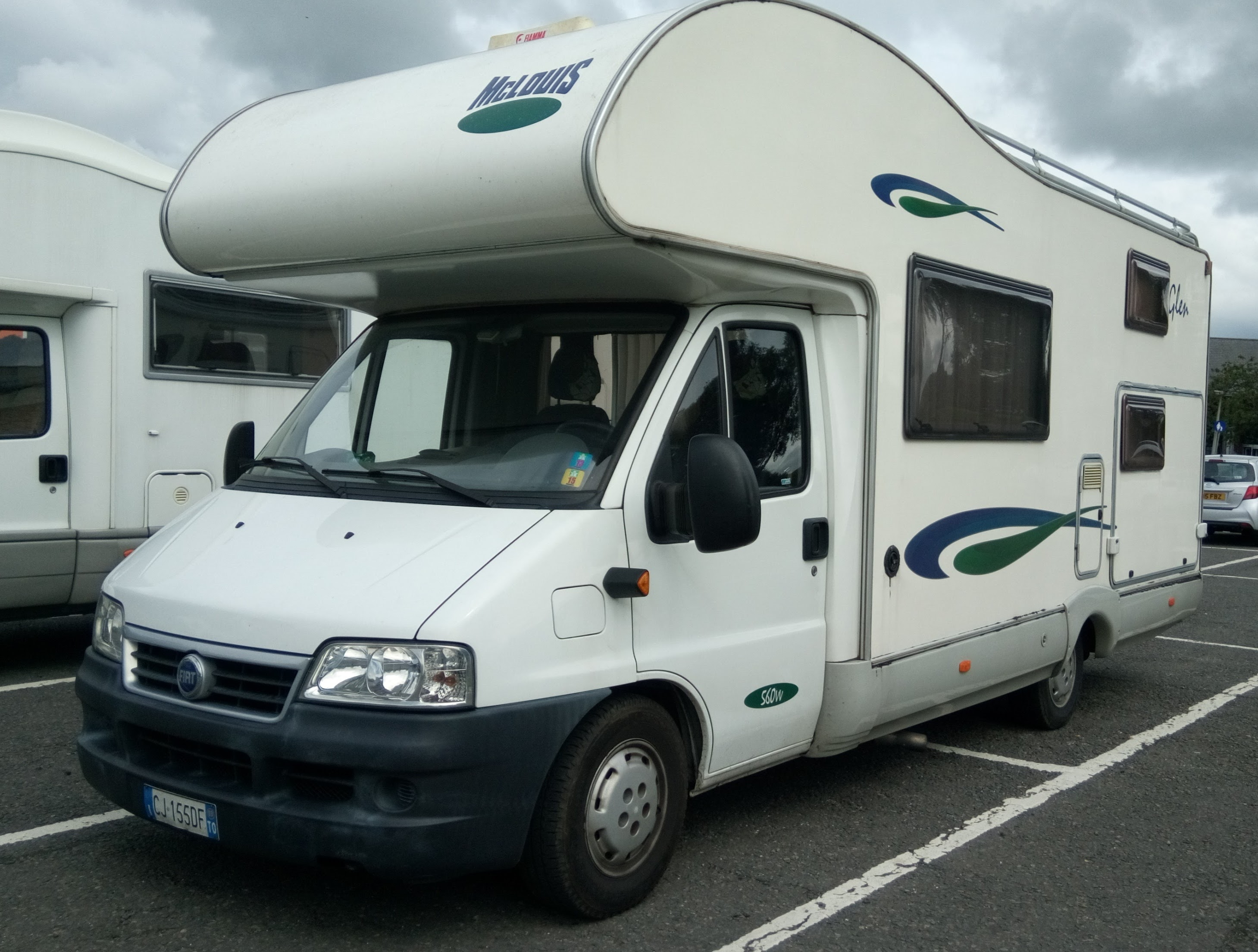 A white Fiat Ducato Campervan 2005 in Scotland